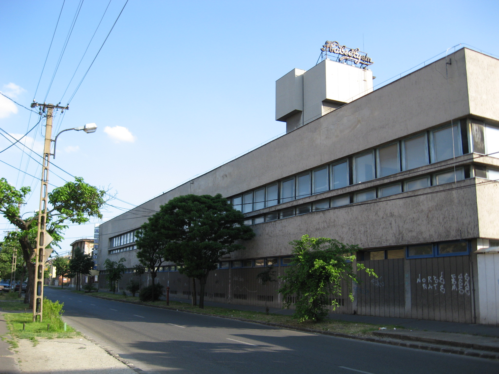 Building of the former Habselyem Knitting Mill in Budapest